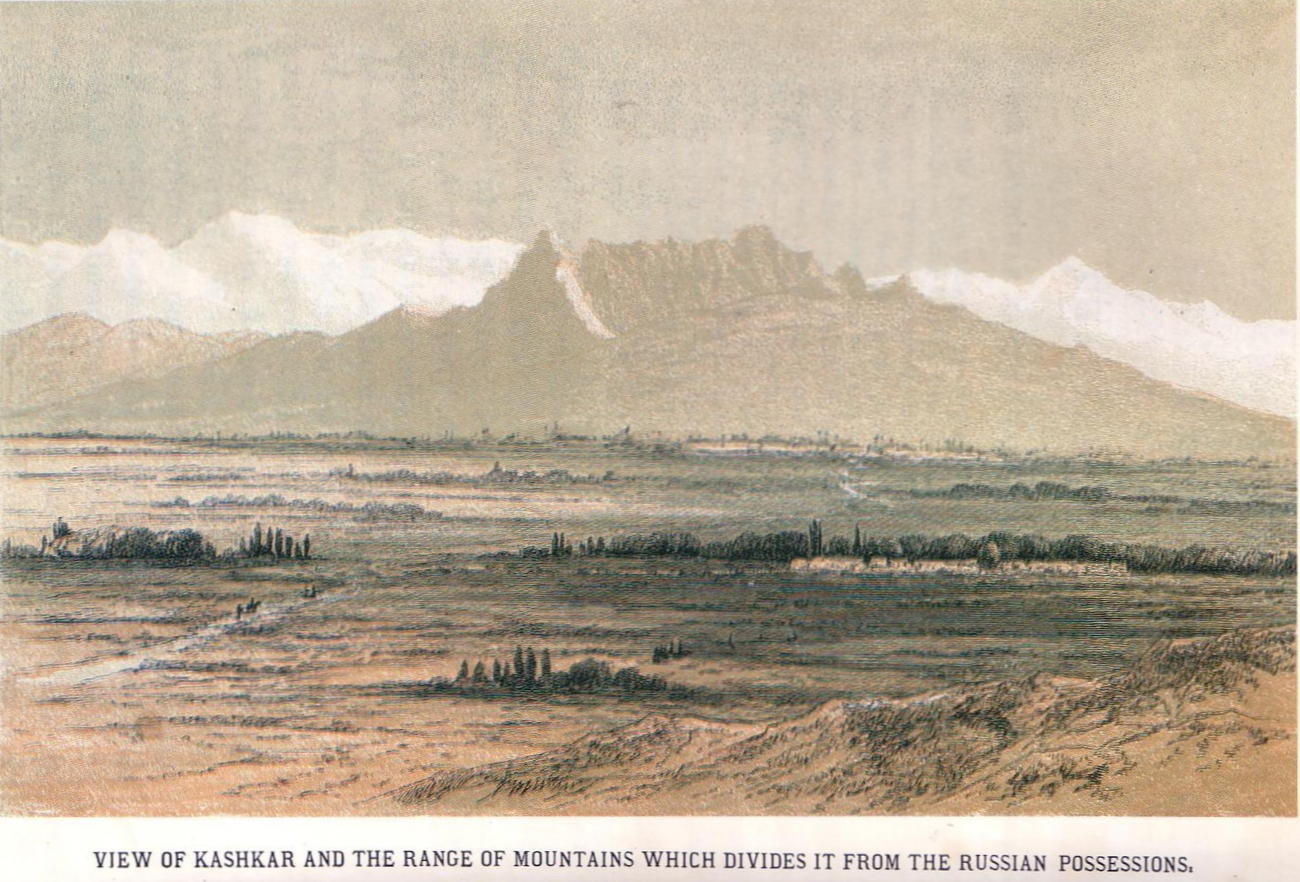 View of Kashgar and the mountains wich divides it from the Russian possessions